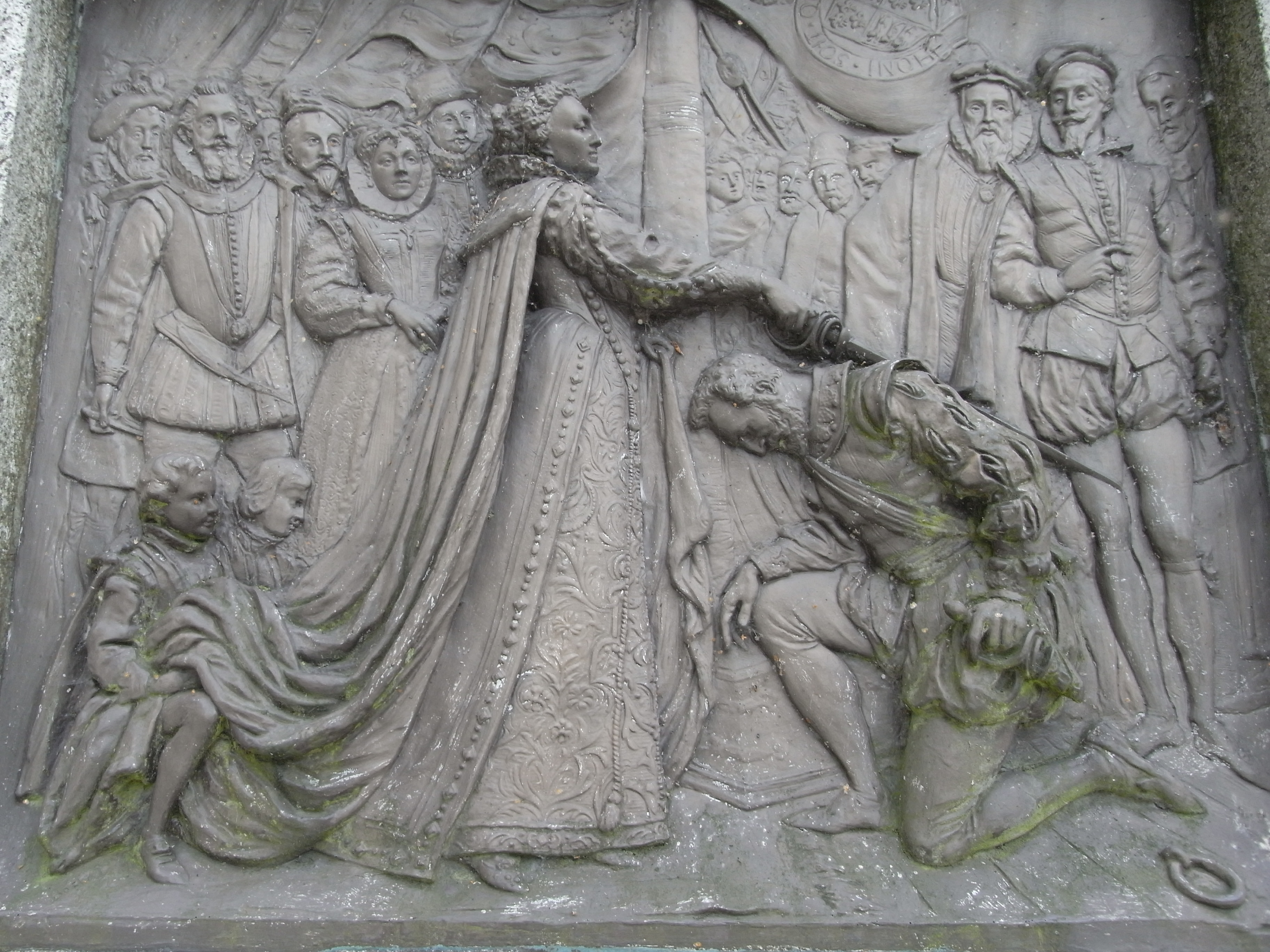 Sir Francis Drake knighted by Queen Elizabeth. One of 4 bronze relief plaques on the base of the Drake statue in Tavistock, Devon. By Joseph Boehm(d.1890), donated by Hastings Russell, 9th Duke of Bedford(d.1891)